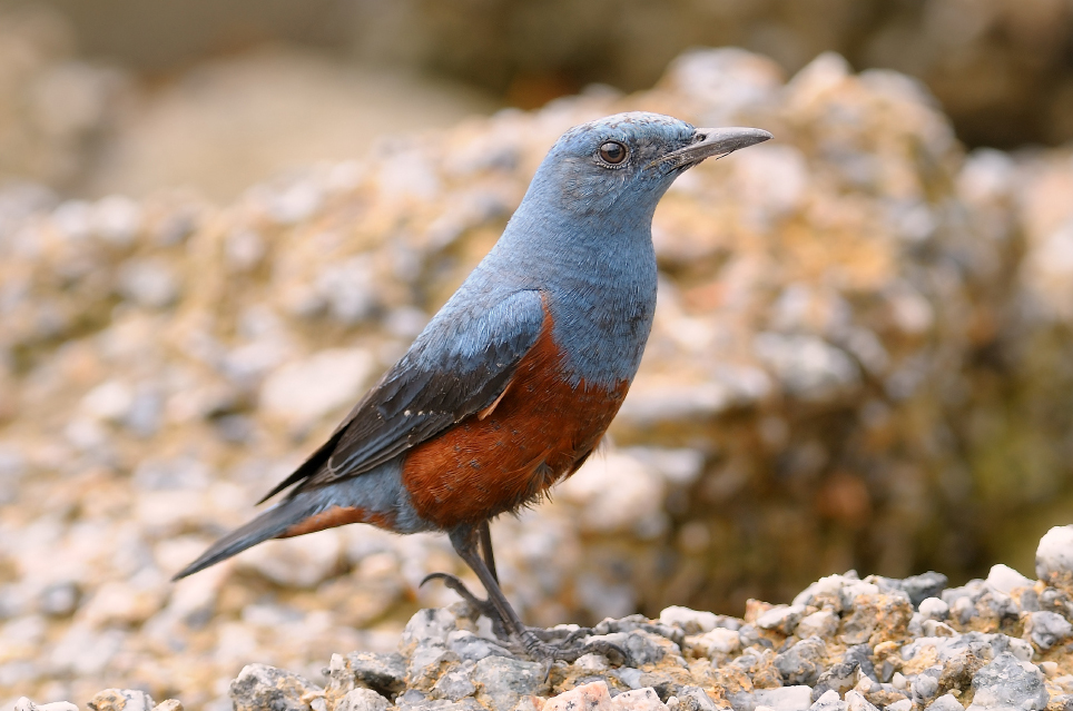 A male Blue Rock-thrush